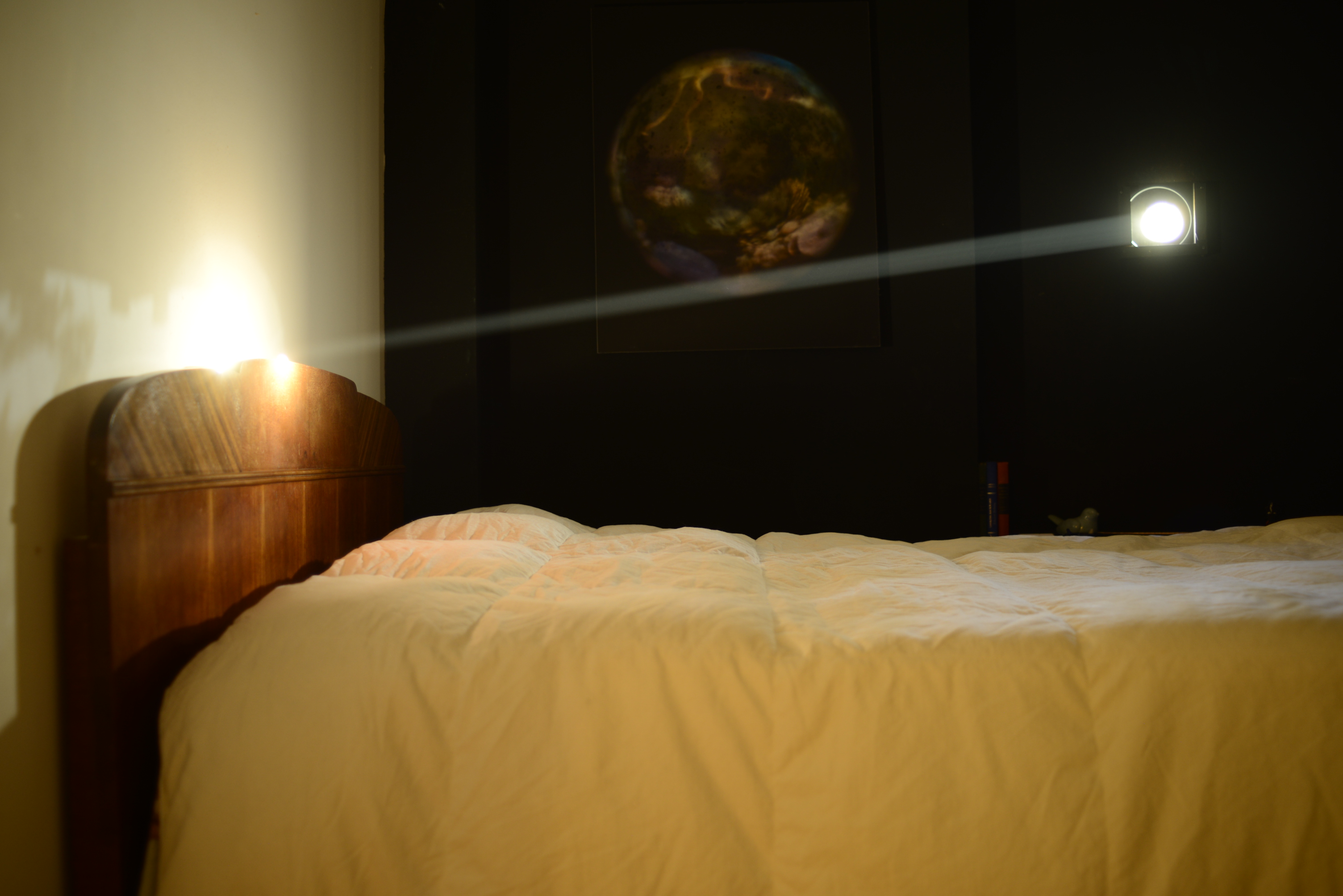 I’ve turned a my bedroom into a camera obscura—a naturally occurring phenomenon in which a small hole in one side of a darkened room projects an inverted image of the outside world on its surfaces. Over the next year, I hope to more fully engaging with the optical, temporal and social aspects of the apparatus. The space is open to the public by appointment.